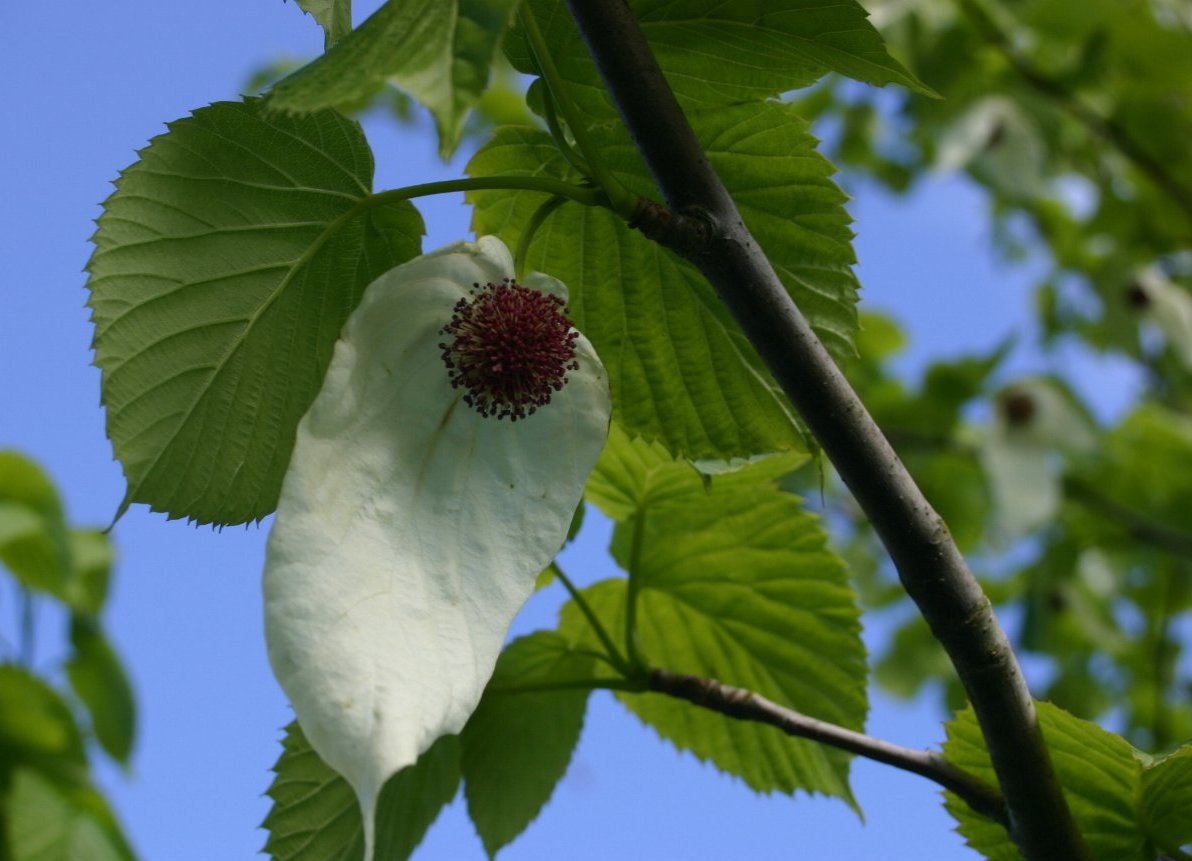 Davidia involucrata: Flower head and coloured leaf.